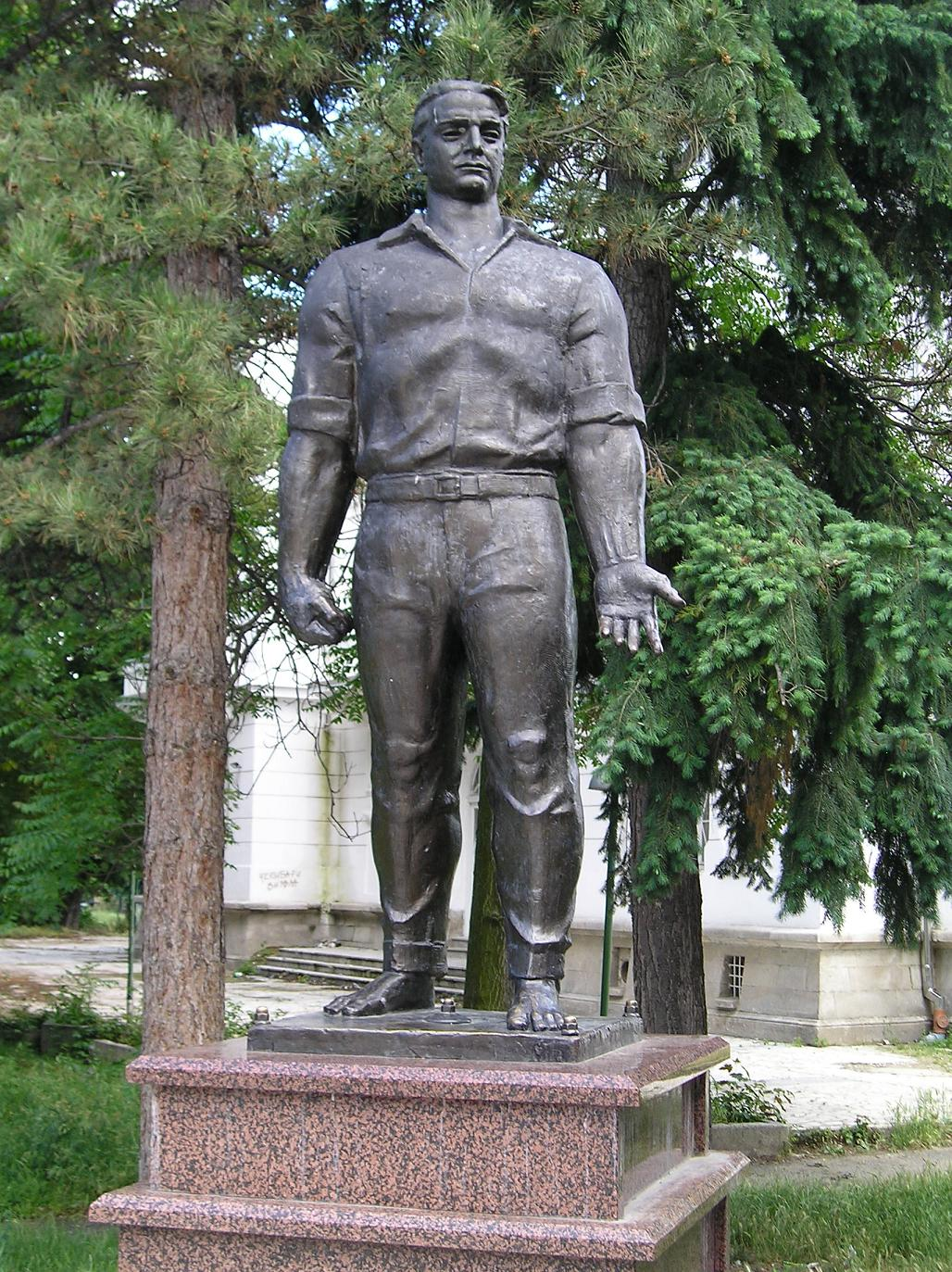 Monument of Stevan (Stiv) Naumov in Bitola, Republic of Macedonia.